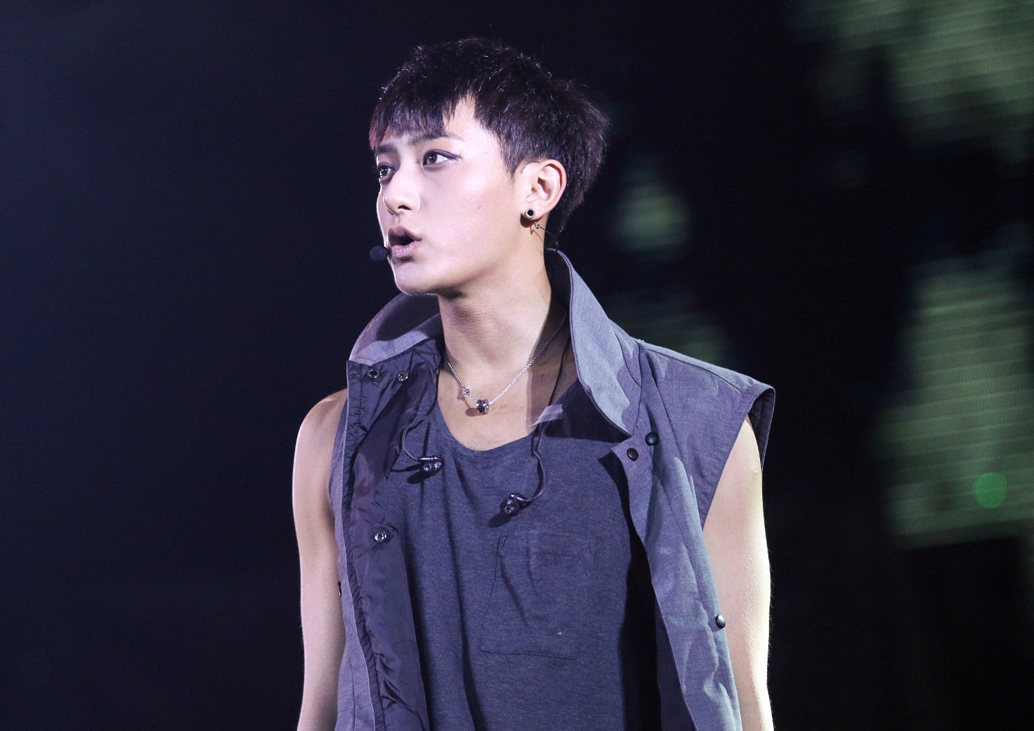 Tao Huang at the EXO The Lost Planet in Jakarta on September 6, 2014.